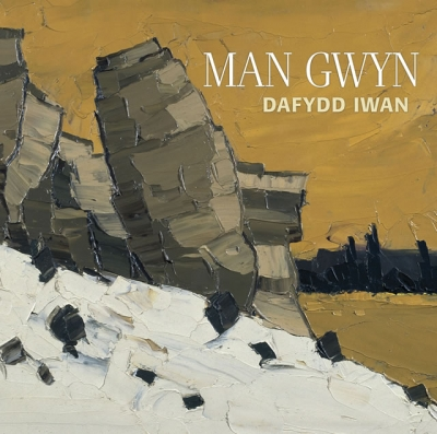 Artwork for the Album Man Gwyn by Dafydd Iwan. Based on the painting Lle Cul, Patagonia by Sir Kyffin Williams (1918-2006).